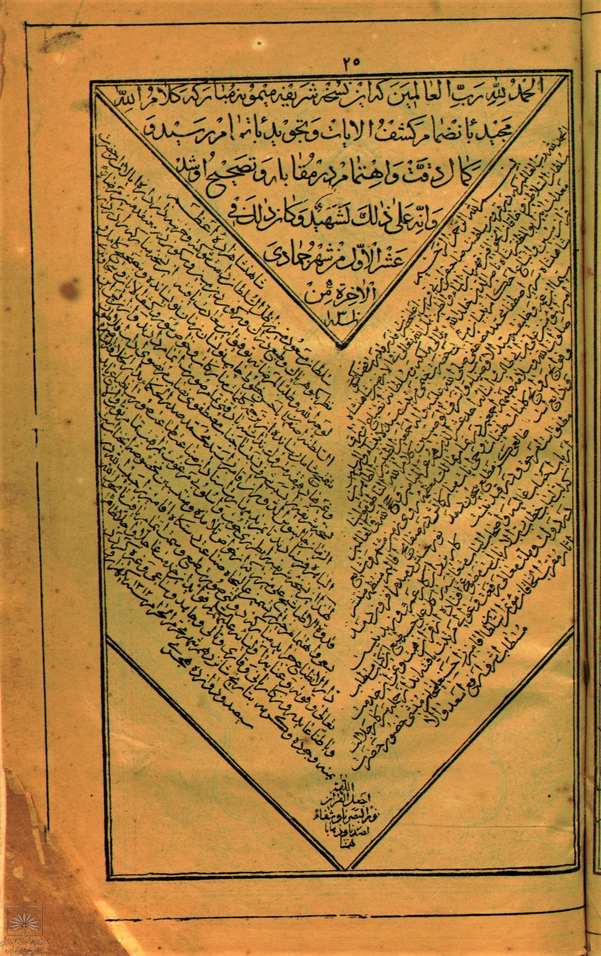 Lithographed Book–Shajareh Tayebeh- Zain Al Abdeen Shahshahani-1870-1287 A.H-شجره طیبه National Library and Archives of I.R. of Iran Registered Number:6-20027